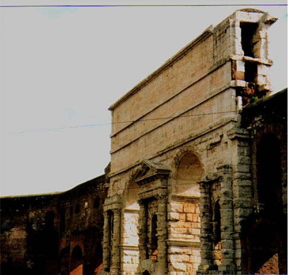 Rome, Porta Maggiore, remains of aqueducts Aqua Claudia and Aqua Anio Novus, integrated into Aurelian Wall as a gate 271 AD. Material: Travertine.